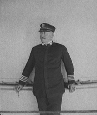 U.S.S. New York, Capt. Chadwick